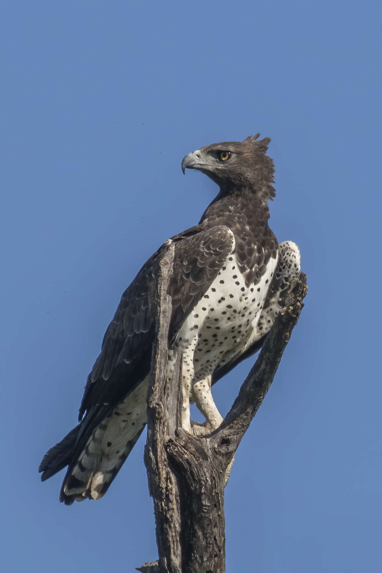 Martial eagle (Polemaetus bellicosus), Matetsi Safari Area, Zimbabwe